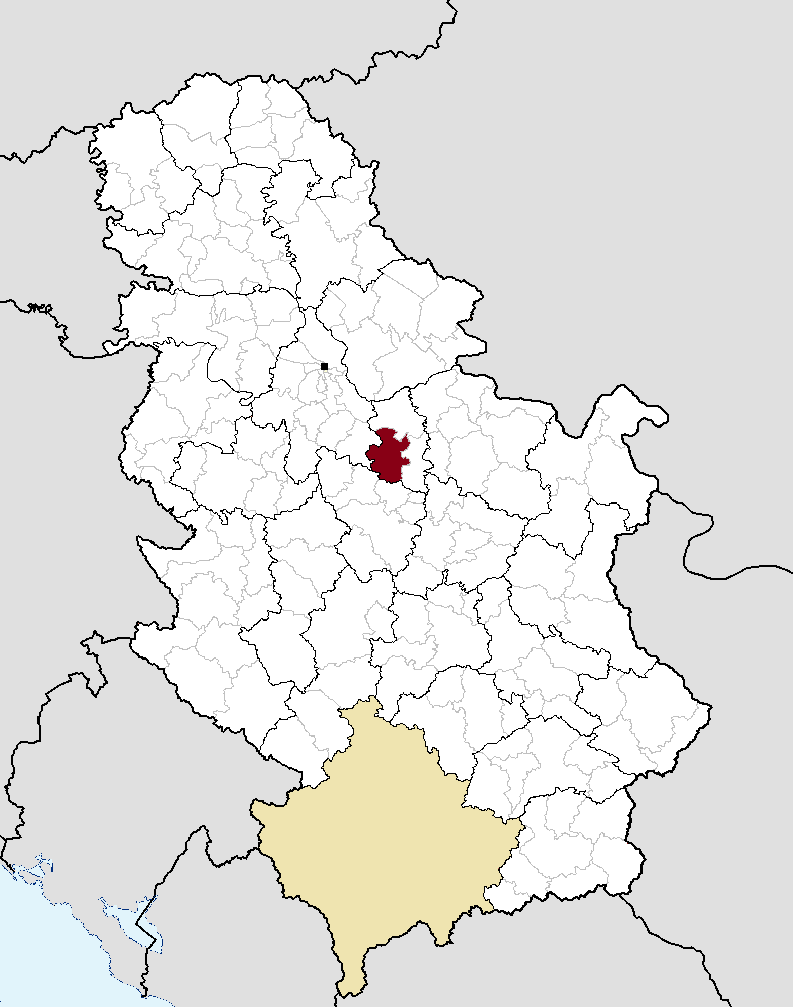 Municipal location in Serbia